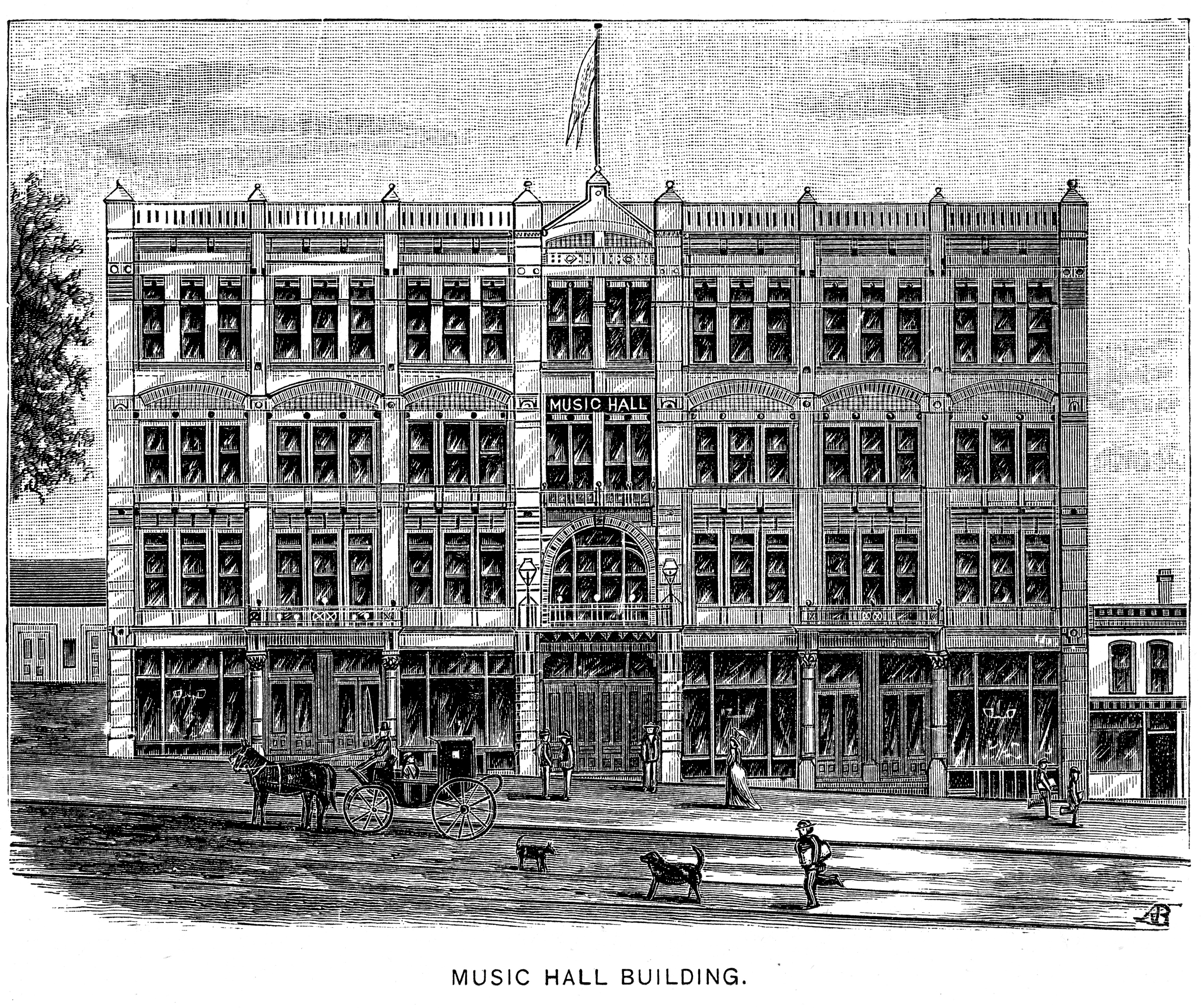 The Music Hall Building was erected in 1880 for Lucius B. Darling who owned a fertilizer company in Pawtucket. It had a seating capacity of 1700 and boasted the longest staircase in the country. The theater was located on the second floor and the interior had three sections; orchestra, balcony and second balcony. It was demolished in 1970.